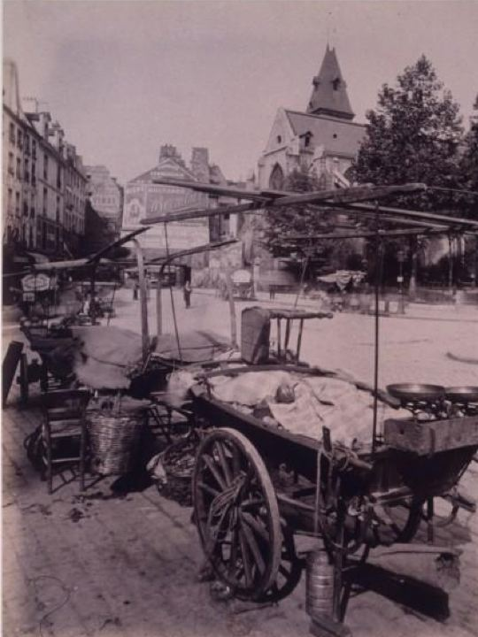 Marketplace in rue Mouffetard near the église Saint-Médard in Paris in 1910. Photo by Eugène Atget